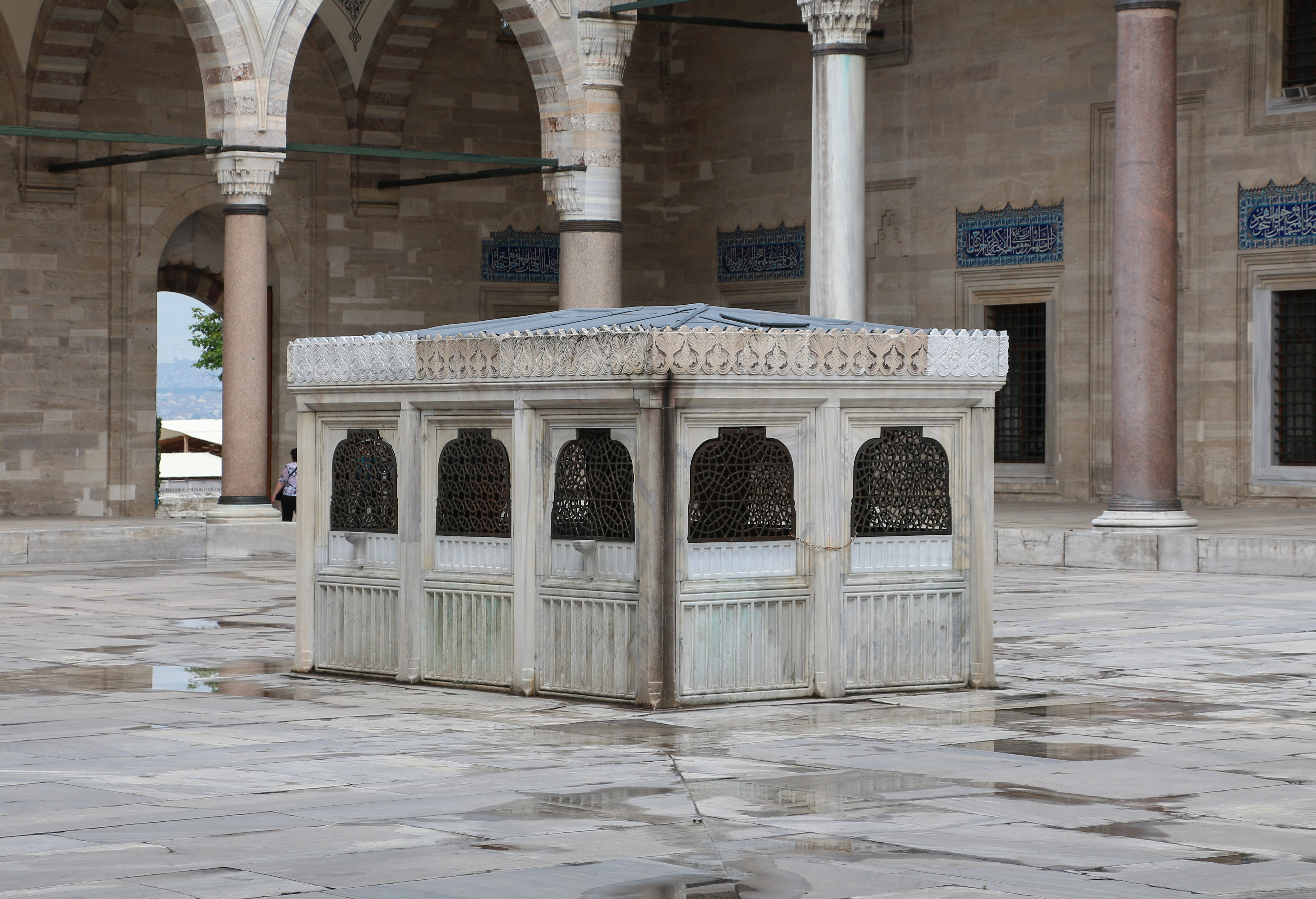 Sadirvan of the Süleymaniye Mosque, Istanbul